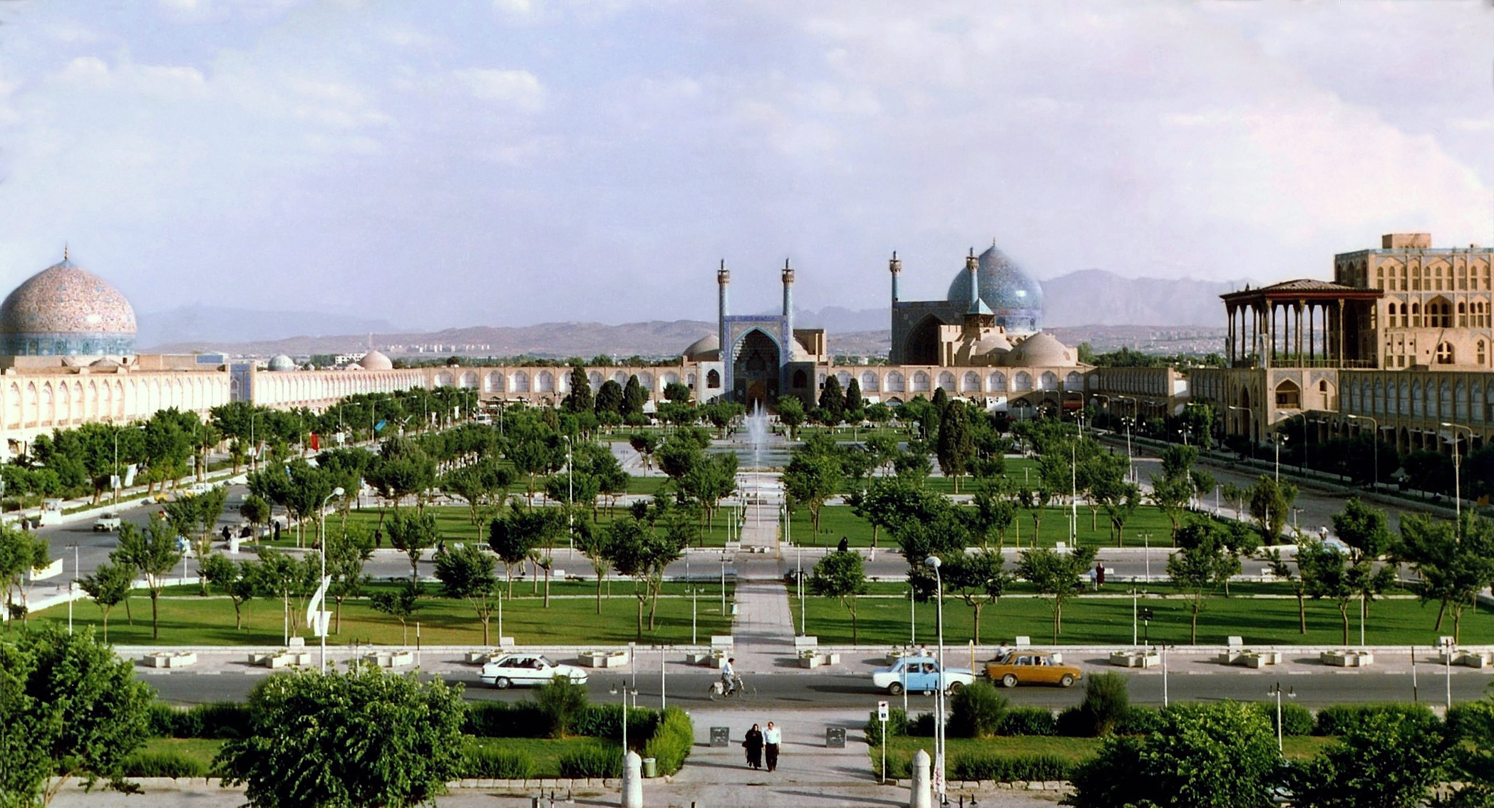 Naghsh-i Jahan Square, Isfahan, Iran (Edited version)